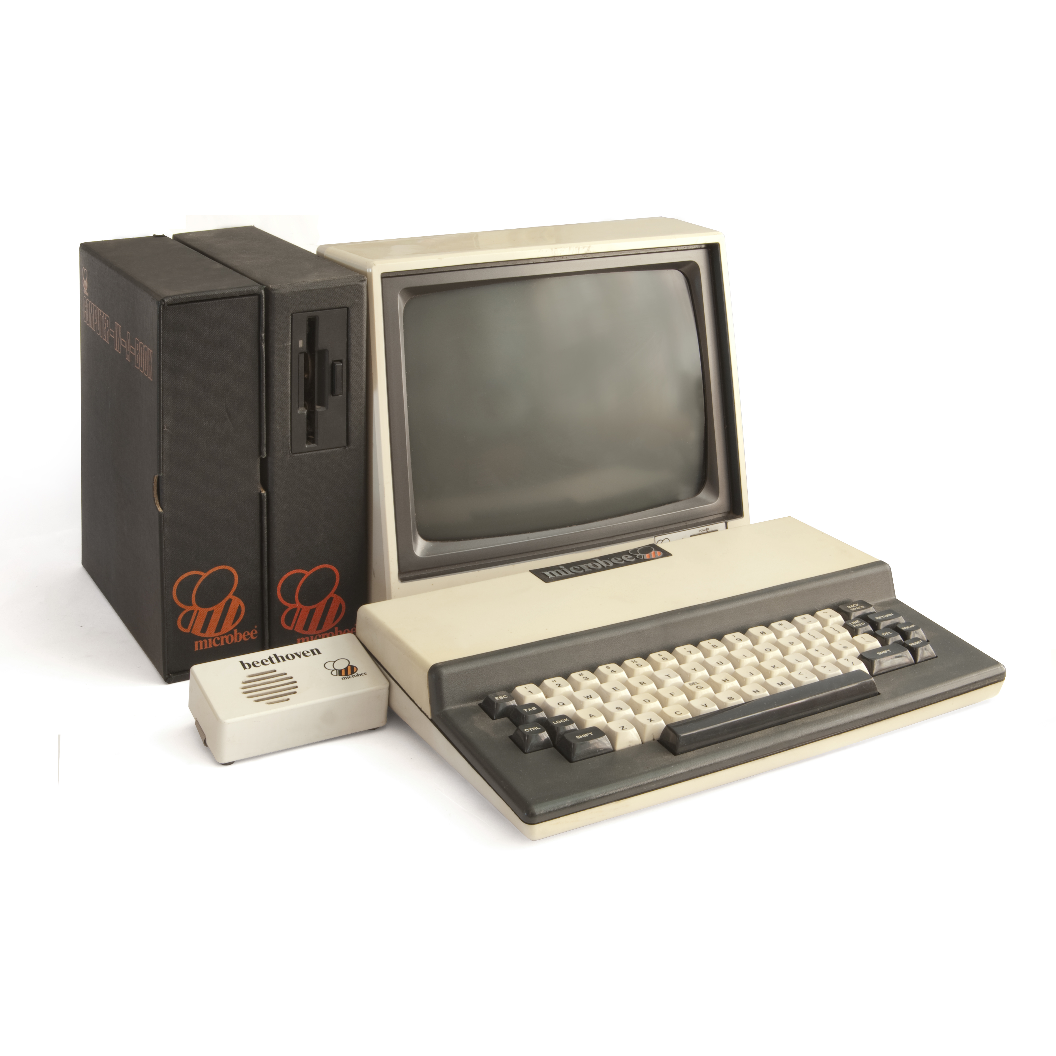 MicroBee's Computer-In-A-Book system. The "Book" contains the power supply and the disk drive in the unit, whereas the actual computer remains in the box containing the keyboard. The second book is the manual.